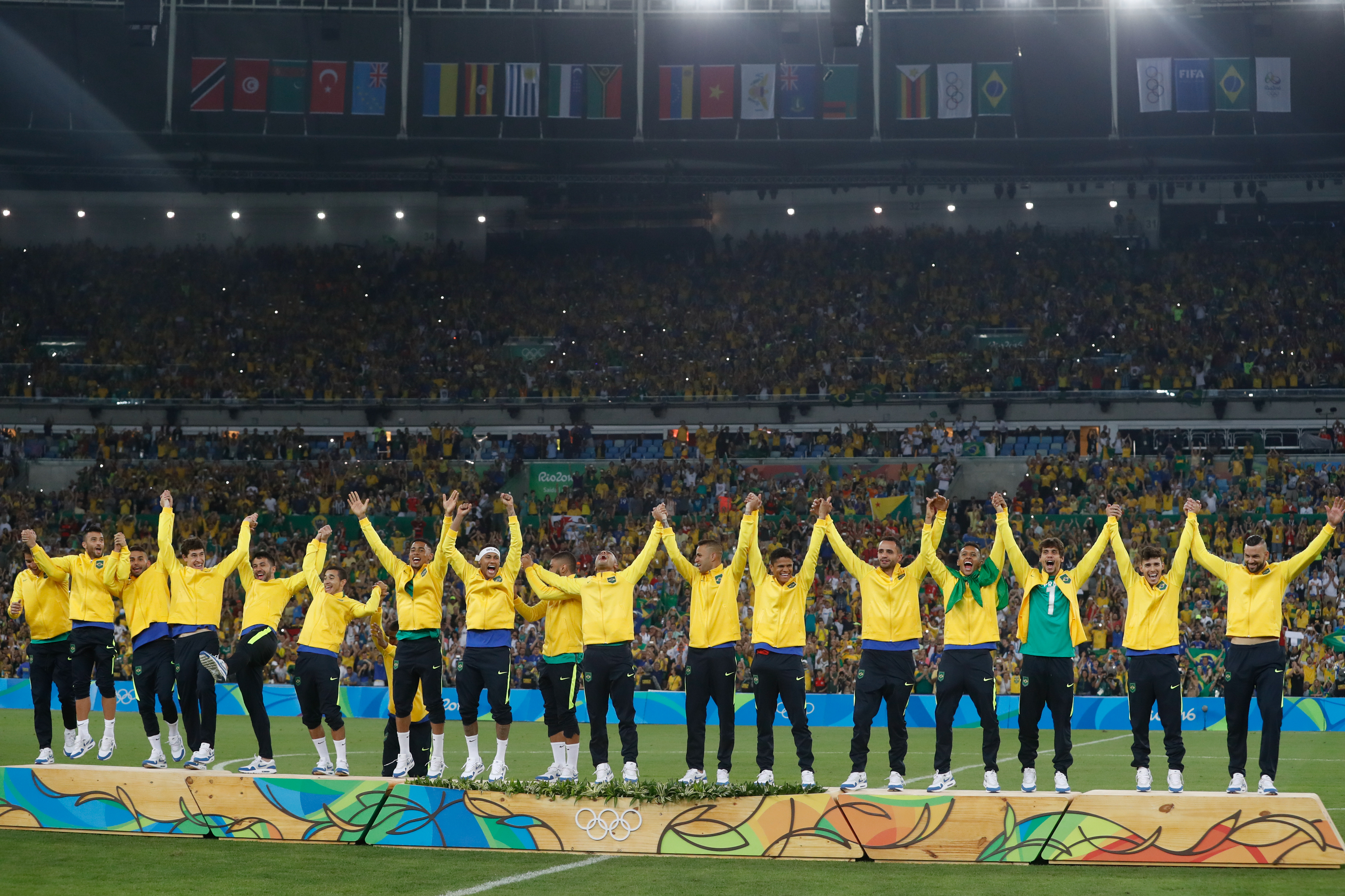 Rio de Janeiro - Brasil vence Alemanha e conquista primeiro ouro olímpico do futebol (Fernando Frazão/Agência Brasil)